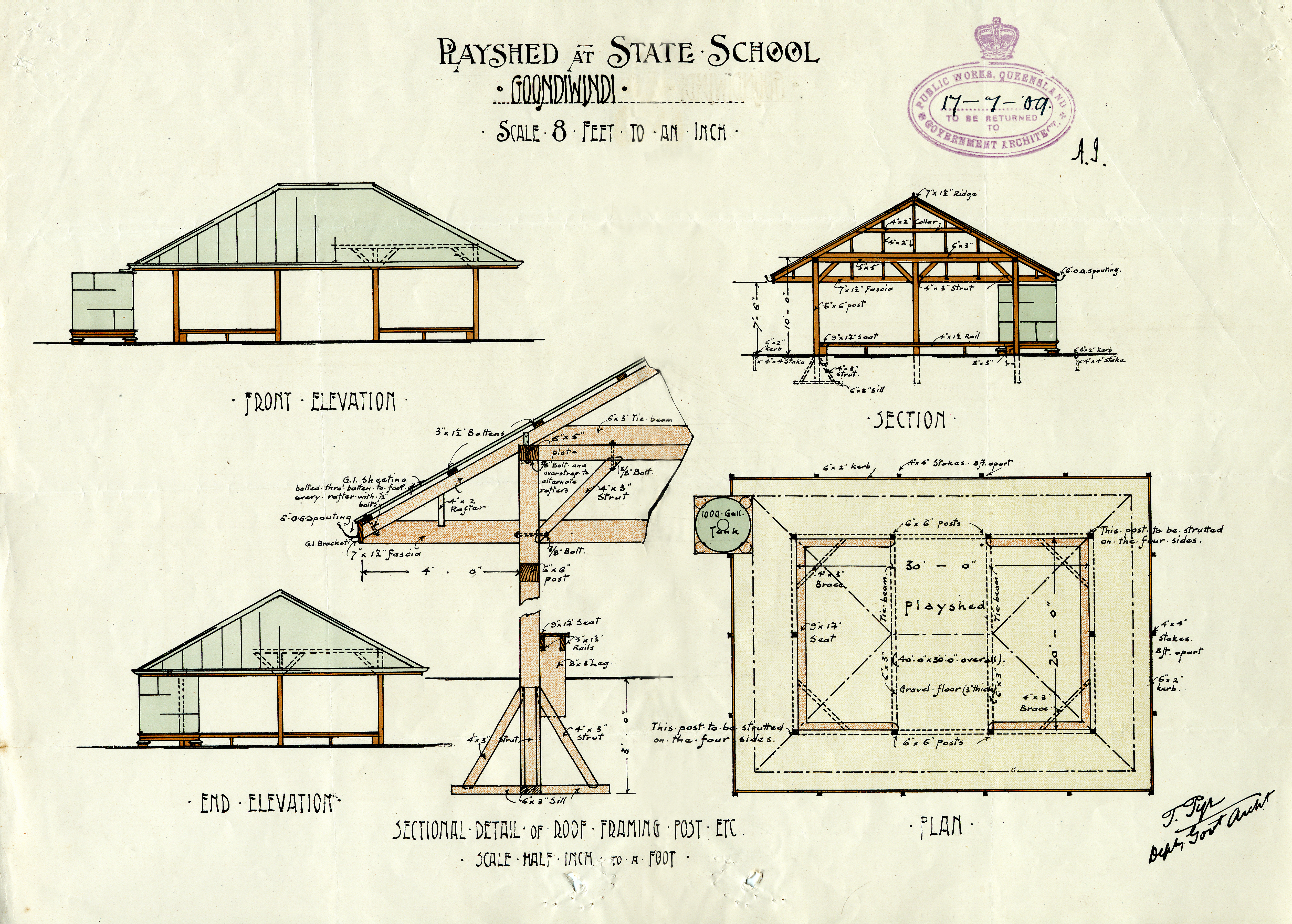 Play Shed at State School, Goondiwindi, 17 July 1909